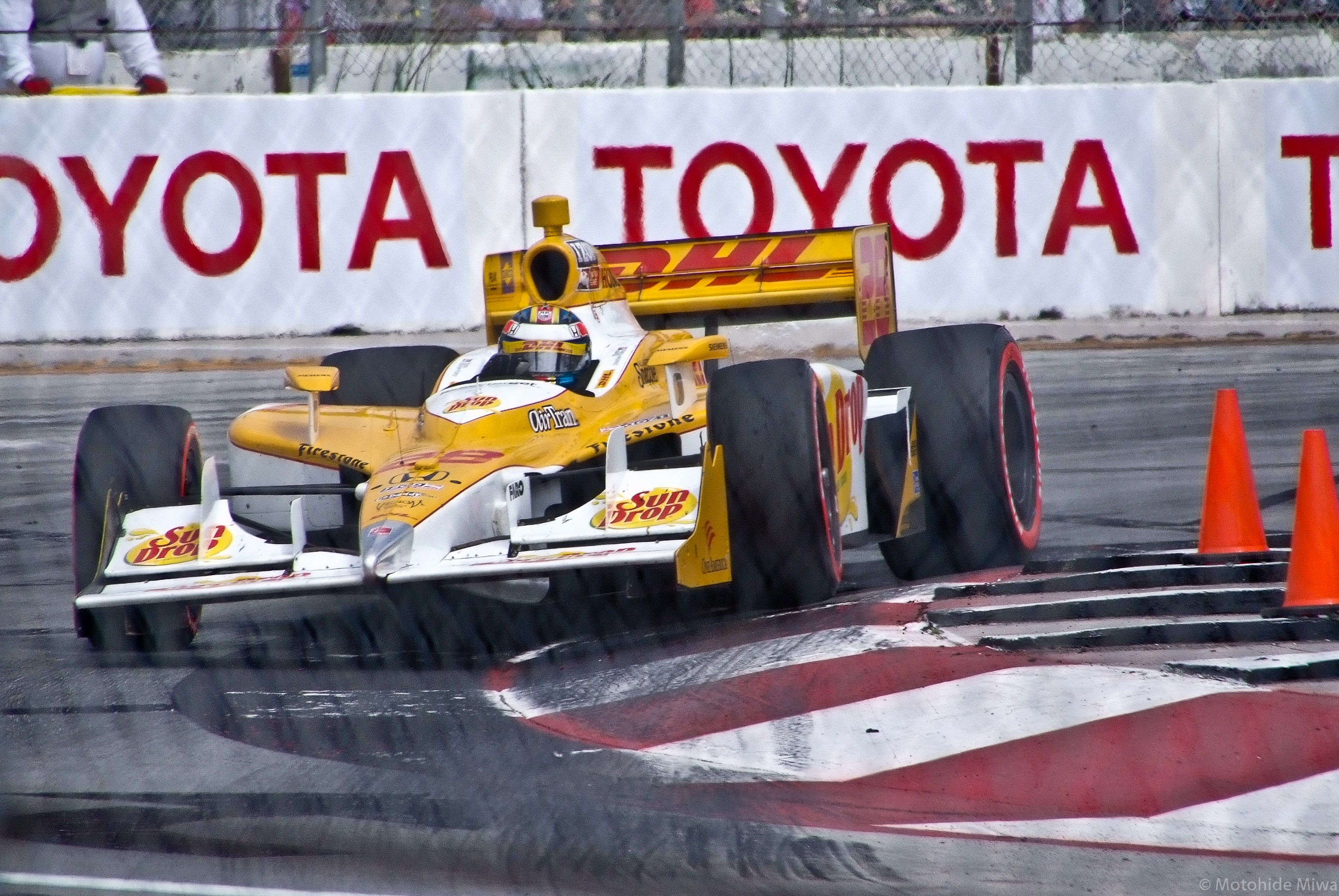 Ryan Hunter-Reay, DHL Team Andretti